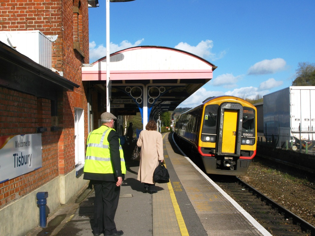 South West Trains' 159003 Templecombe arrives at Tisbury railway station, Wiltshire, England, with a train from London Waterloo to Exeter.